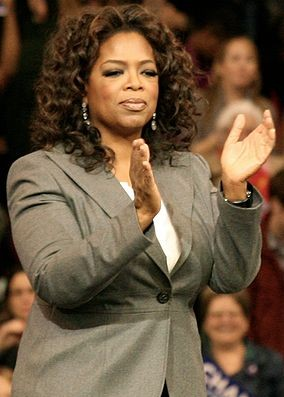 Oprah Winfrey